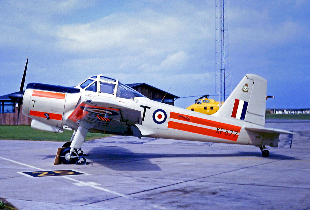 Percival P.56 Provost T. XF877 coded 'T' of the Central Air Traffic Control School based at RAF Shawbury.